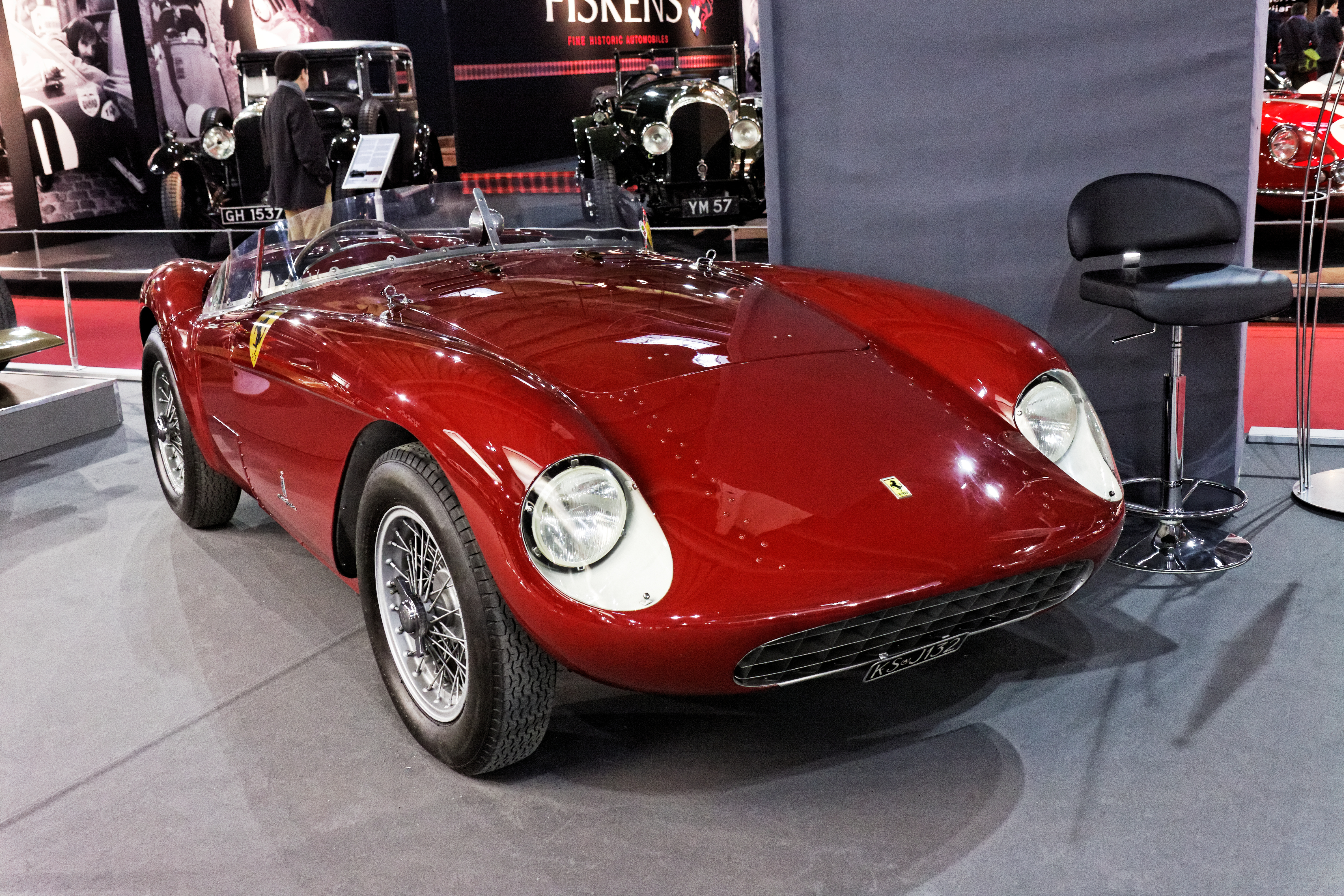 Une Ferrari Mondial présentée lors du salon Retromobile 2013. This is serial number 0438MD, first delivered to Mr. Rubirosa of the Dominican Republic.[1]